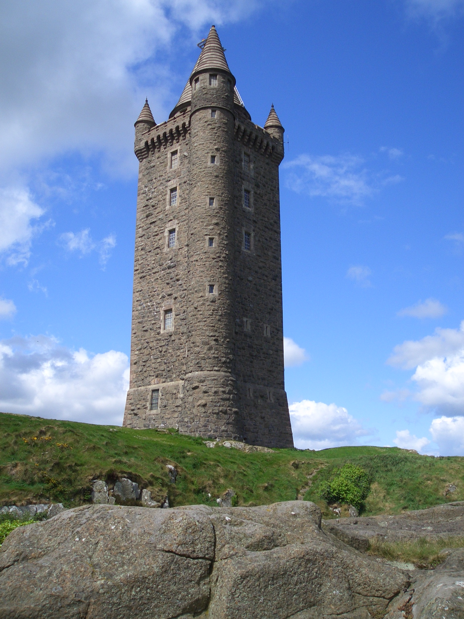 View of Scrabo Tower in Newtownards, County Down, Northern Ireland (Taken with Casio Exilim EXS100 on Sunday 20th May 2007 at 13:00)